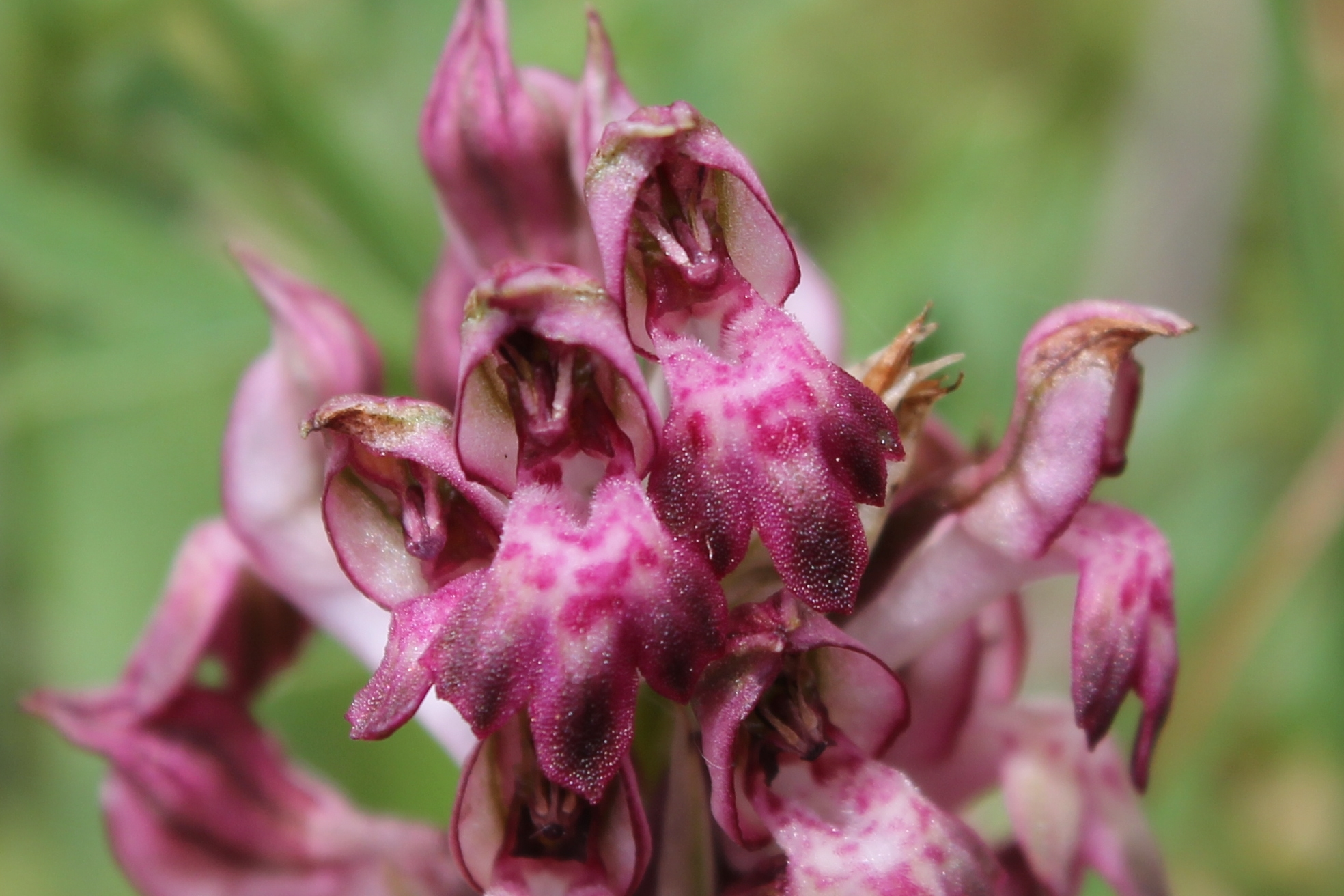 Anacamptis coriophora labellum